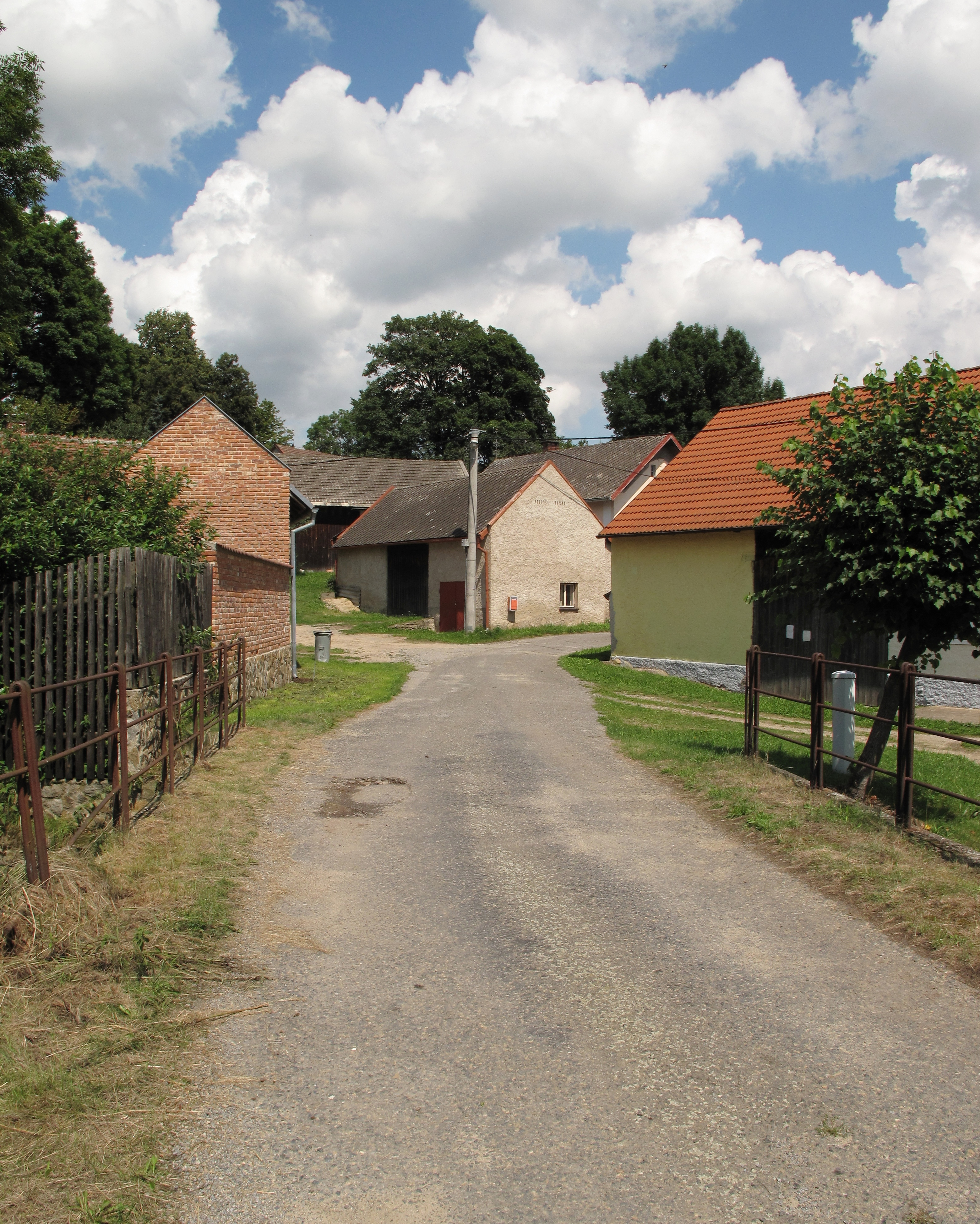 This photograph was taken within the scope of the second year of the 'Czech Municipalities Photographs' grant.